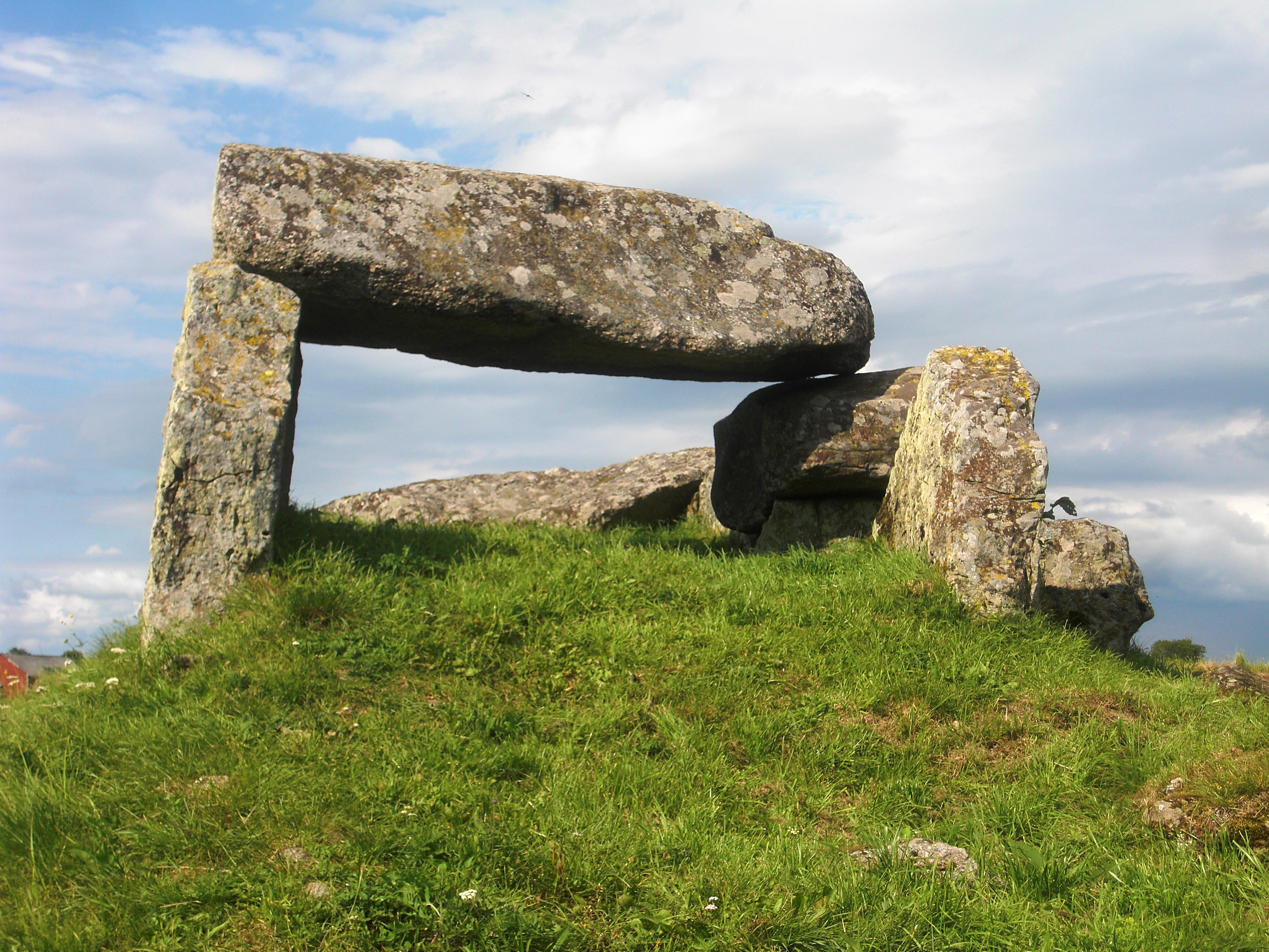 The Neolithic passage grave in Luttra (RAÄ number Luttra 15:1) in Falköping municipality, Västergötland, Sweden.